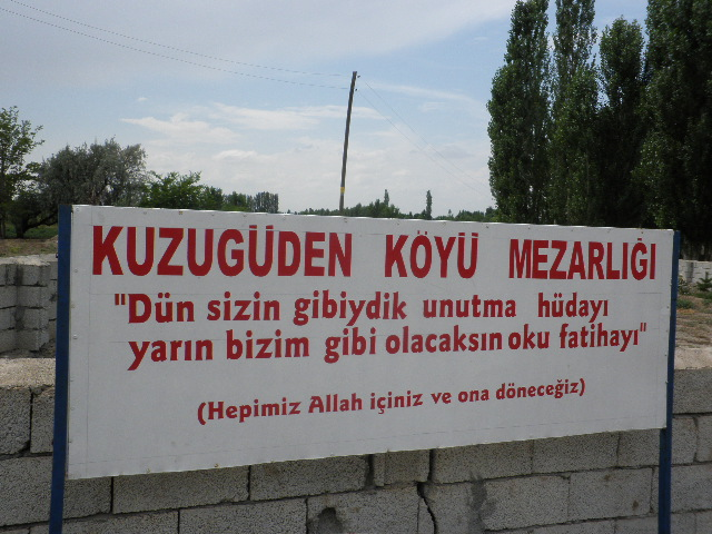 Kuzugüden Cemetery